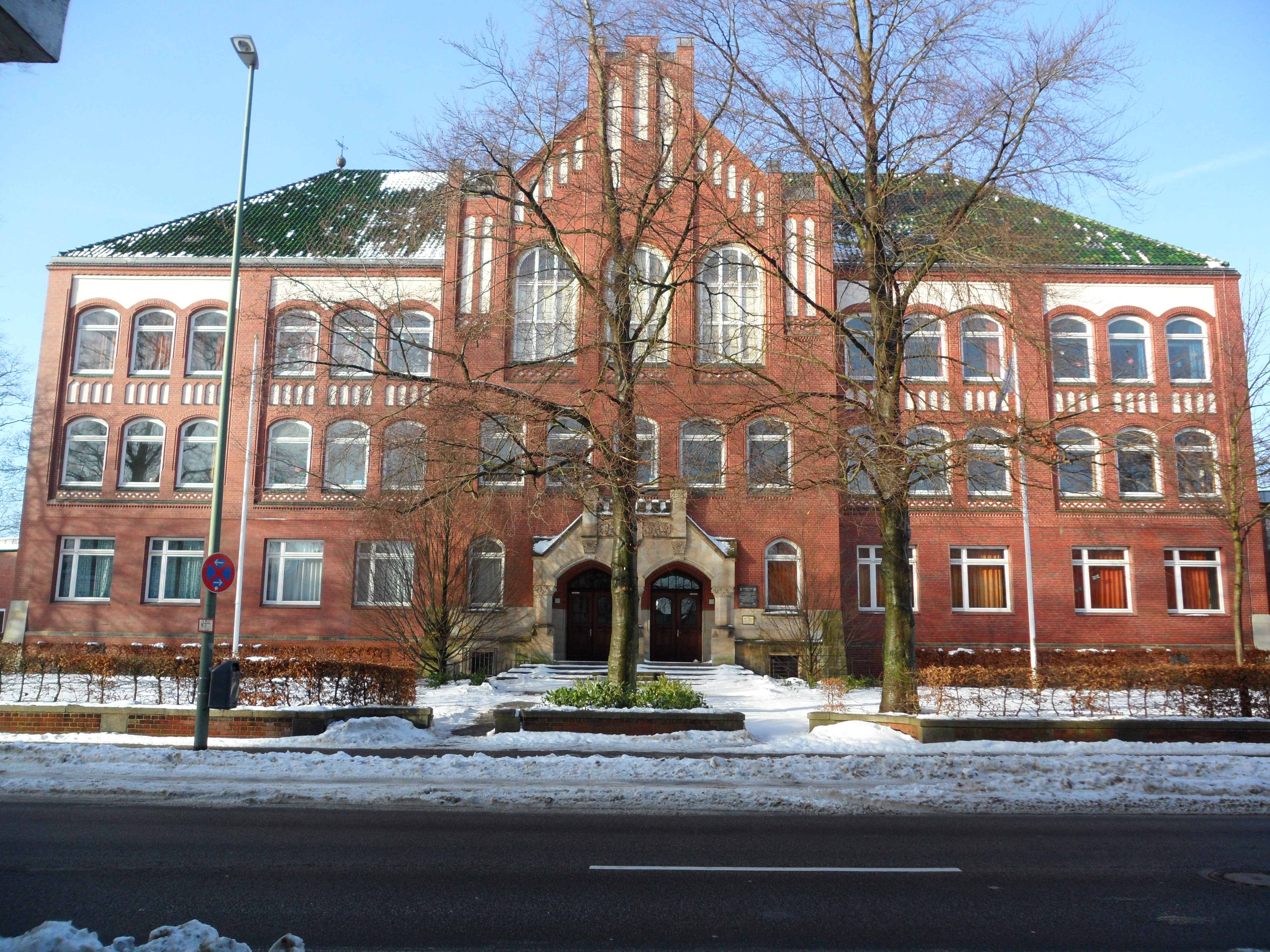 Front side of the Hostenschule in Neumünster